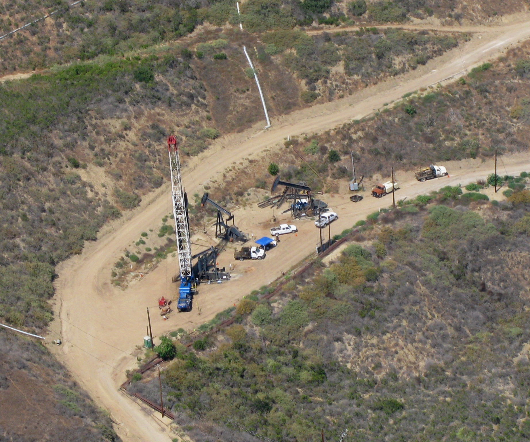 Active drilling operation, Ventura Oil Field; photo by self, from above, GFDL/equiv, July 2009